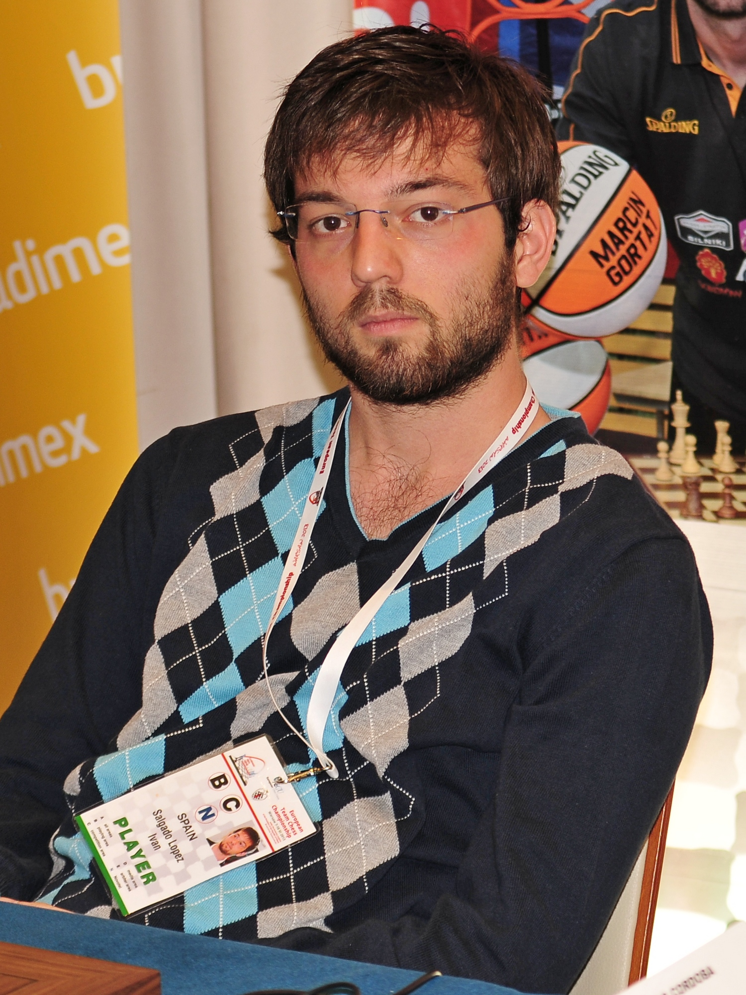 GM Iván Salgado López, European Chess Team Championship Warsaw 2013